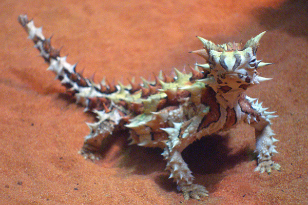 Alice Springs Desert Park, Alice Springs, Australia, thorny devil